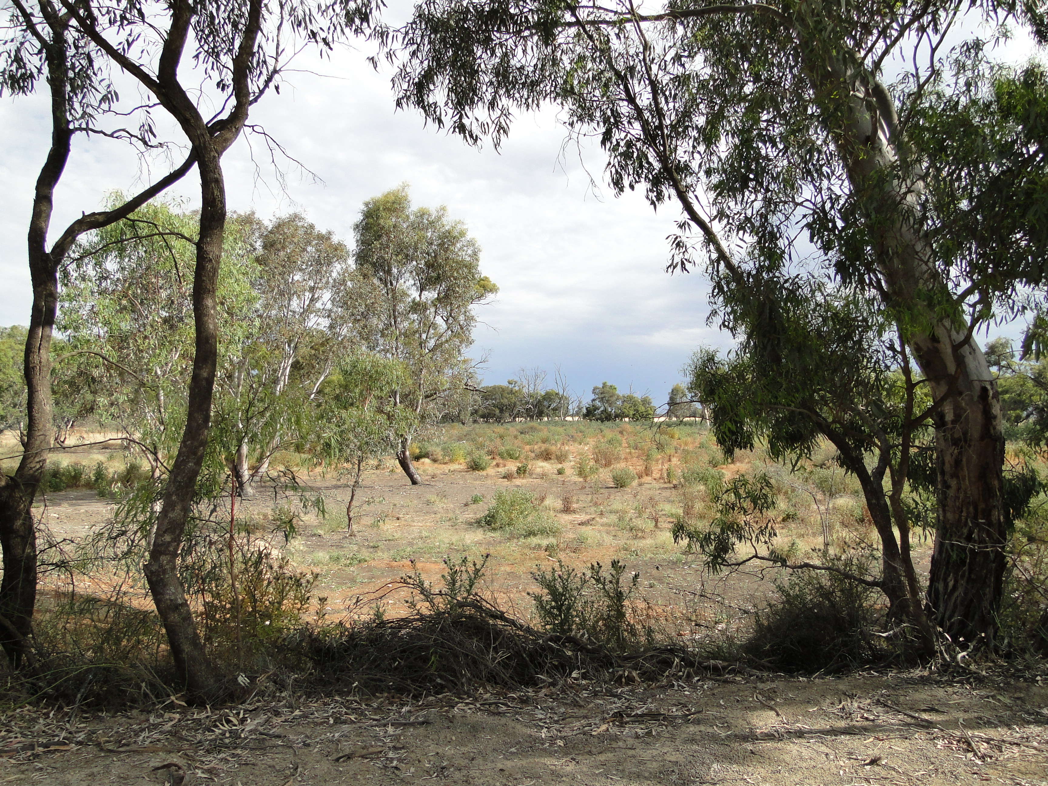 A view of the Yarriambiack Creek, at Brim, Victoria, Australia, looking south towards the upstream weir.